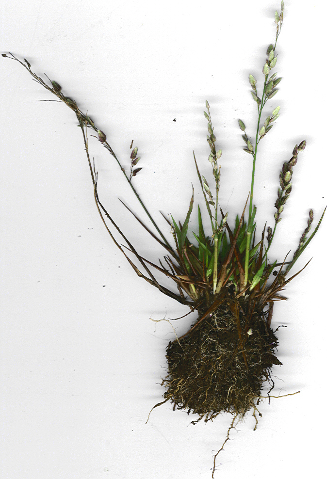 Eragrostis unioloides (plant). Location: Hawaii, Hilo